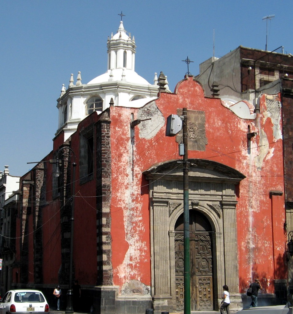 Small chapel called San Lorenzo-Deacon and Martyr next to the Church of Santo Domingo in the historic center of Mexico City